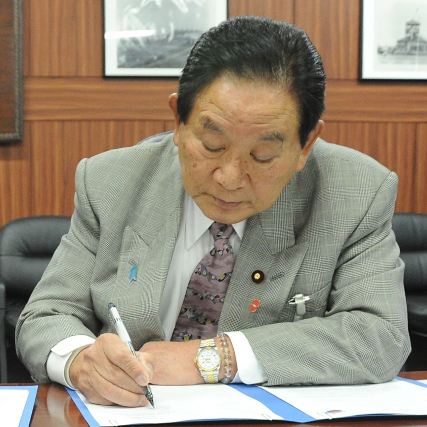 ATSUGI, Japan (Feb. 2, 2011) - Capt. Eric Gardner, left, commanding officer of Naval Air Facility (NAF) Atsugi, signs a Memorandum of Agreement with Keishu Tanaka, chairman for the Naval Reserve Training Facility Totsuka Users' Association, in the headquarters building at NAF Atsugi. The signing allows NRTF Totsuka Users' Association to invite sports teams from outside Izumi and Totsuka Wards to practice or play games at Fukaya Communication site. (U.S. Navy photo by MCS 3rd Class Justin Smelley)